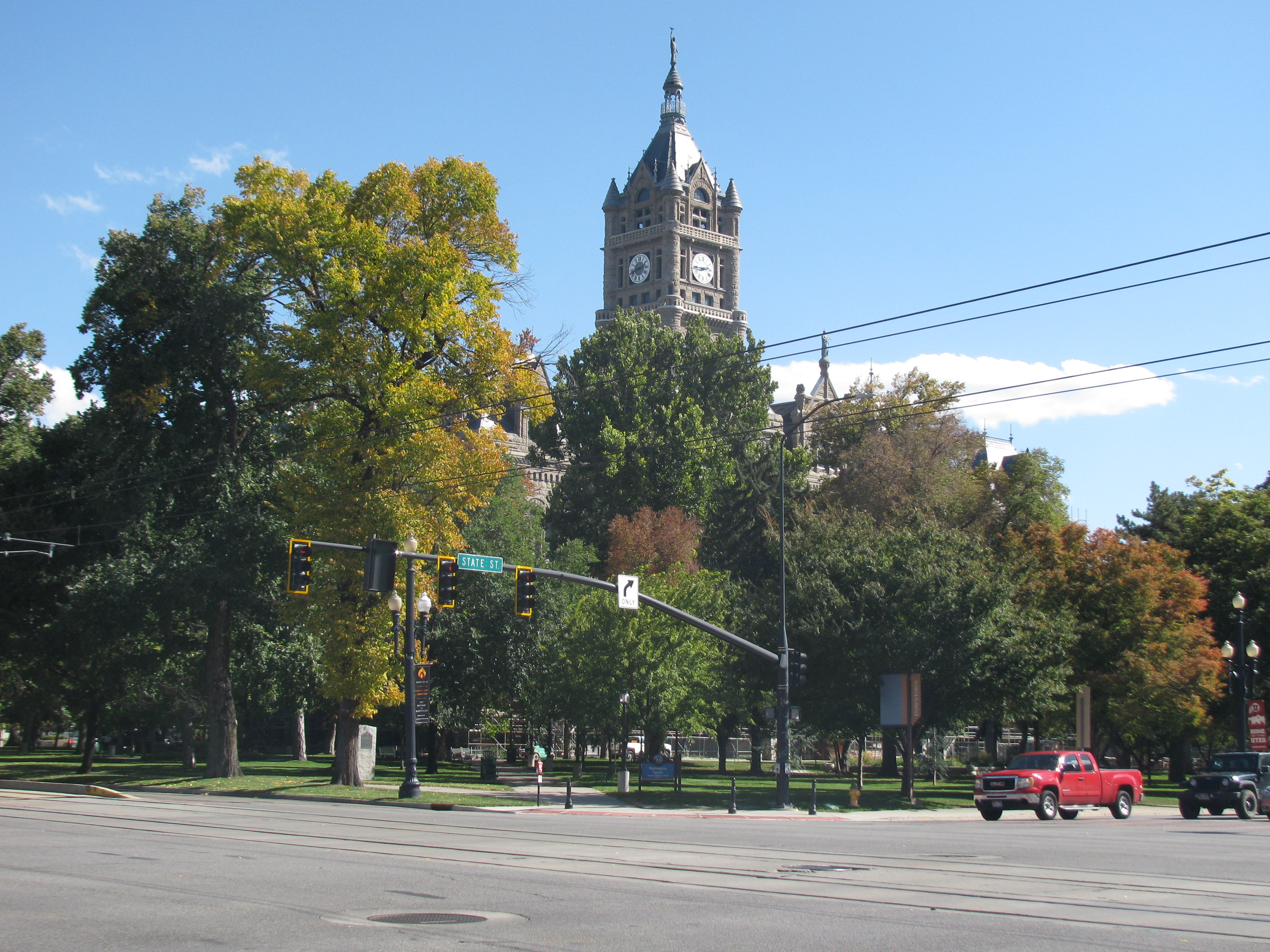 City and County Building of Sale Lake City and Salt Lake County, Utah, United States.